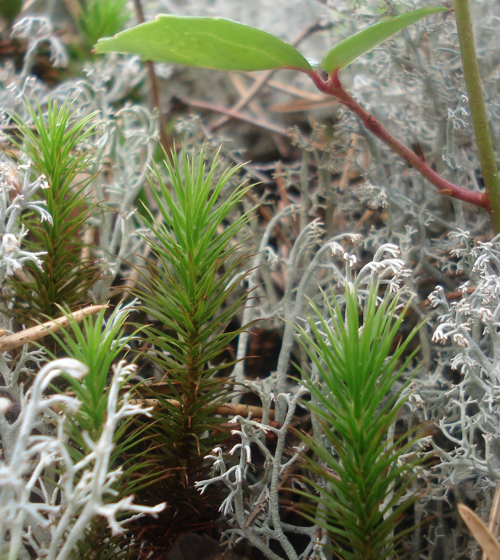 photo of moss taken in the Saguenay park in Quebec. This moss has not been identified yet.